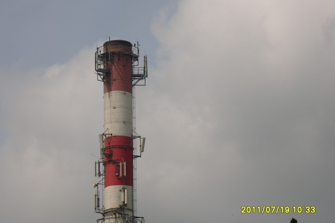 A chimney with a height of 78 meters in KZPP factory in Koniecpol.